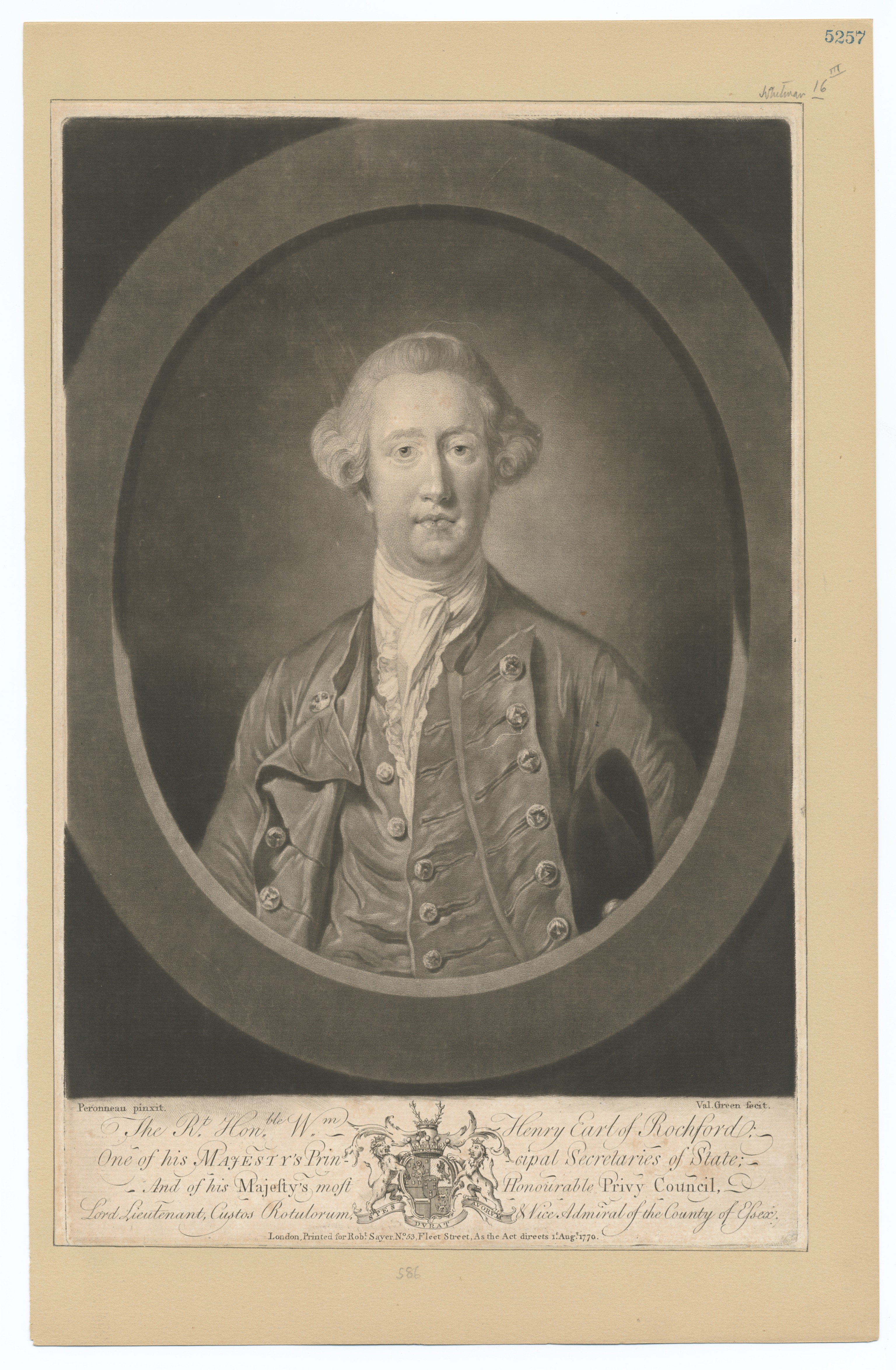 Volume numbers given here refer to the original volume numbers of the publication, not of Lossing's publication. Printmakers include Fenner, Sears & Co., H.B. Hall, Max Rosenthal and J.R. Smith. Title from title page of extra-illustrated volume. EM5257